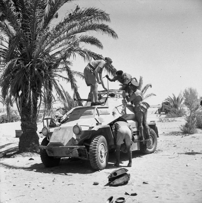 The British Army in North Africa 1941 British soldiers inspecting a captured German SdKfz 222 armoured car, 24 June 1941.